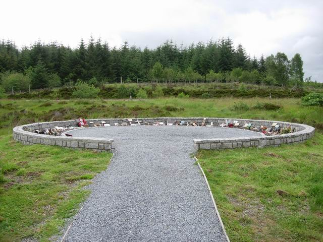 Memorial garden, near to Highbridge, Highland, Great Britain. A large number of personal messages to some incredibly brave people.